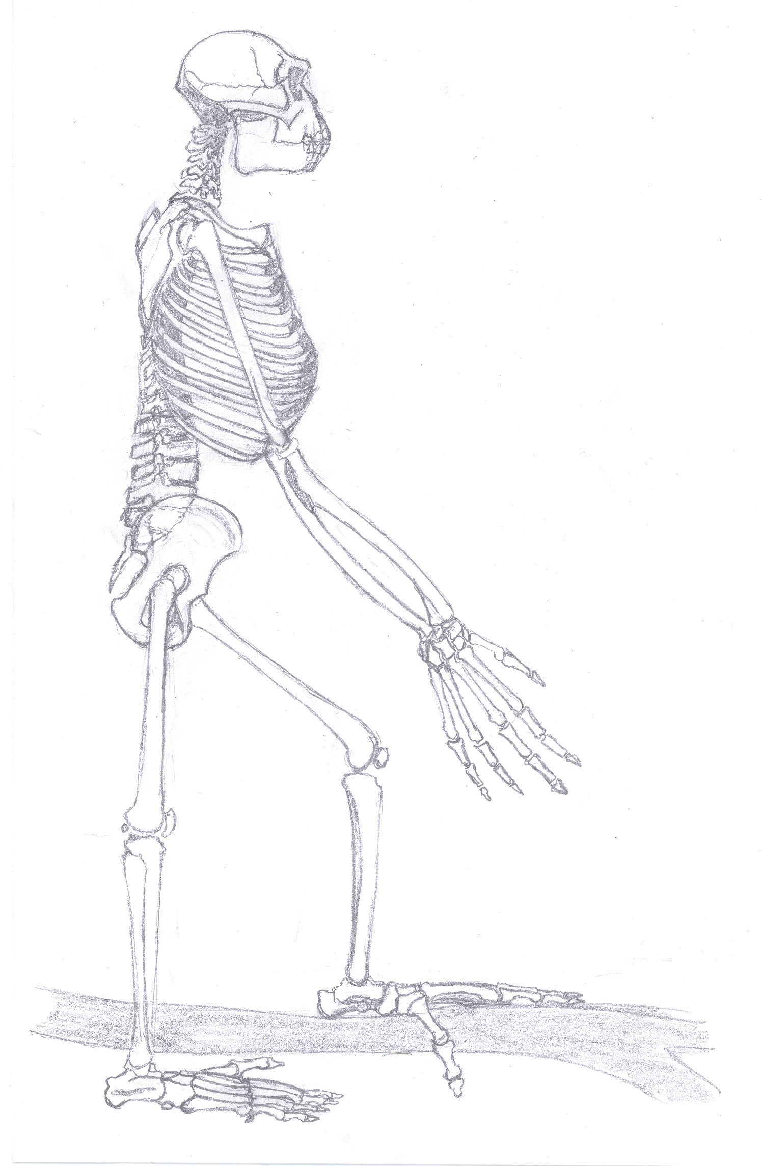 Ardipithecus ramidus („Ardi“), complete skeleton. Own drawed remake of p.36, "Science" of 2nd October 2009.